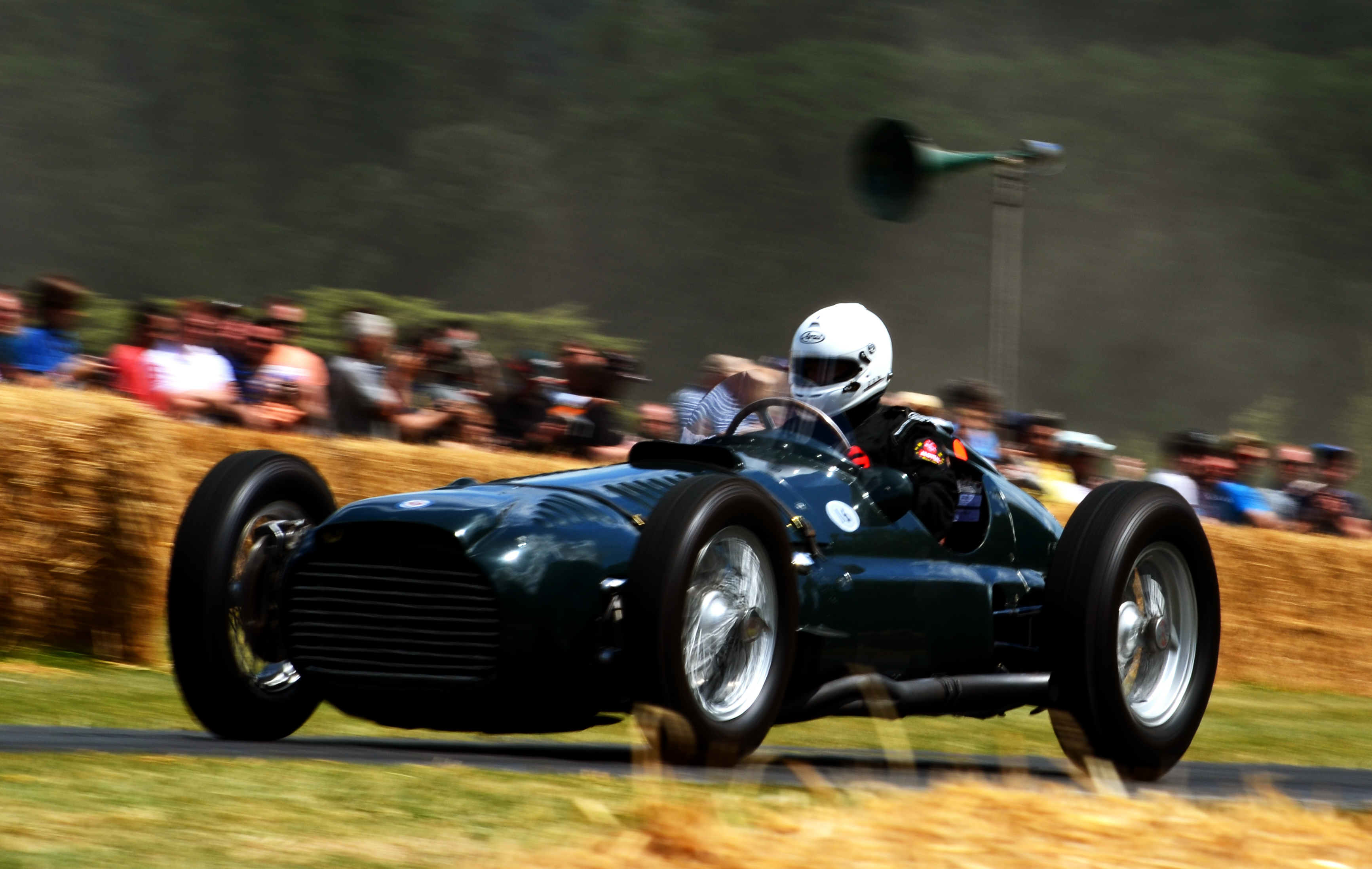 The BRM Type 15 F1 car at the 2014 Goodwood Festival of Speed.